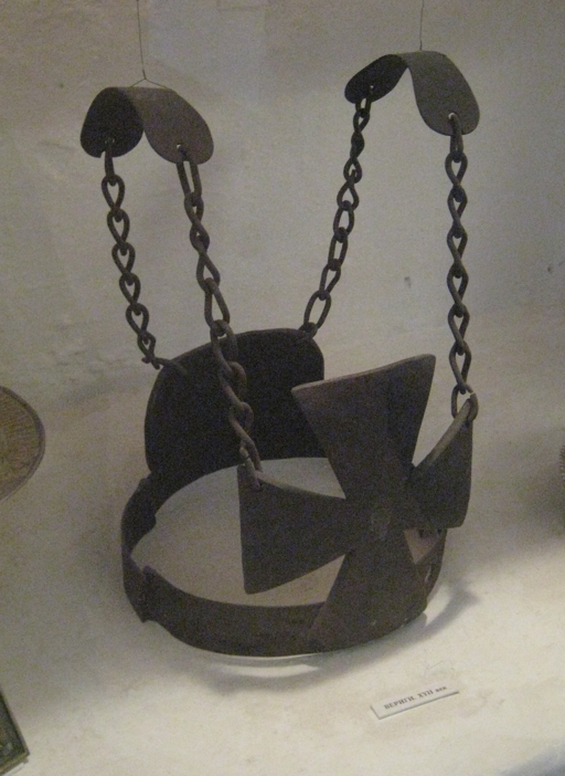 Monks' (ascets') fetters. From Pskov museum (Russia), XVI-XVII c.